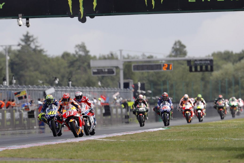 Marc Márquez, riding his Repsol Honda, leading the pack of front runners at the 2017 Czech Republic Grand Prix.